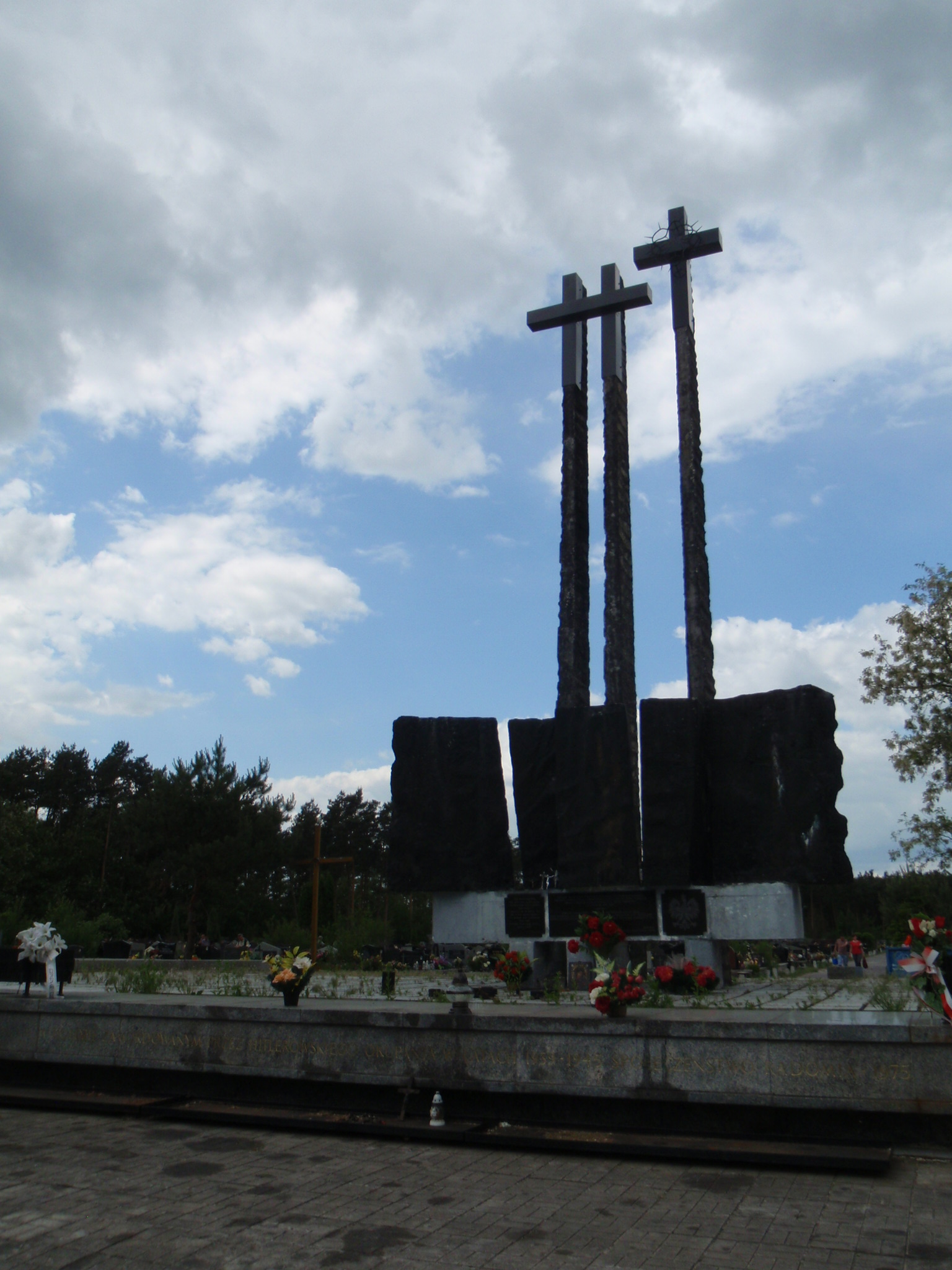 Communal cemetery in Radom - monument commemorating about 15000 victims killed by Germans during II world war in Firlej (now part of Radom)